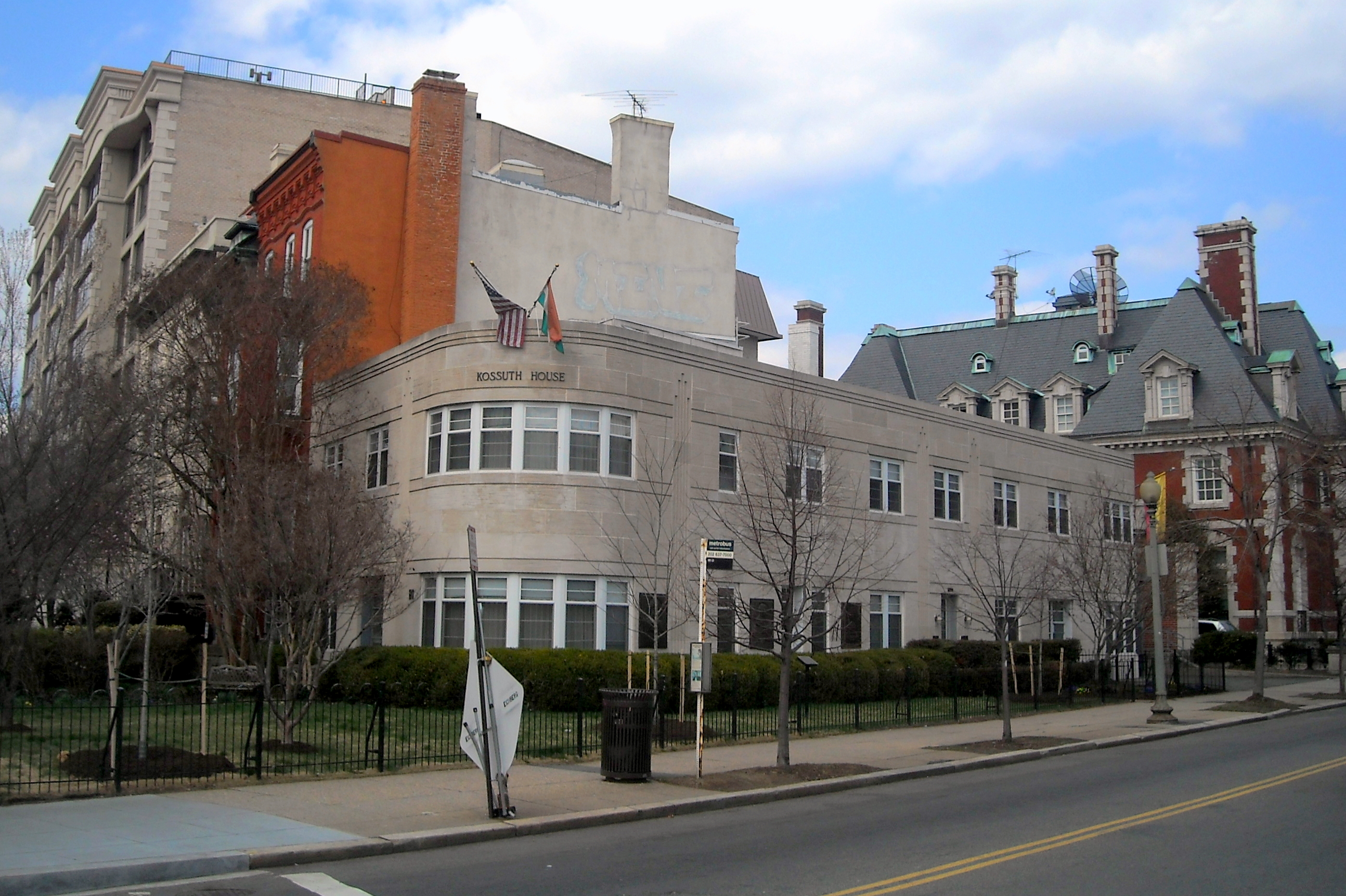 The Kossuth House, a community center and headquarters of the Hungarian Reformed Federation of America, located at 2001 Massachusetts Avenue, NW in the Dupont Circle neighborhood of Washington, D.C. The building is named after Hungarian politician Lajos Kossuth and valued at $2,357,540. It's a contributing property to the Massachusetts Avenue Historic District and Dupont Circle Historic District. The site was previously occupied by the Junior League Washington, D.C. headquarters. The Thomas T. Gaff House and Hilton Embassy Row are visible in the background.